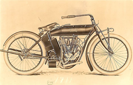 1909 Indian 5 HP Light Twin. 5 hp, 38 cu. in. pocket-valve twin-cylinder engine, Hedstrom carburetor, single-speed transmission, chain drive, loop frame (first-year introduced), cartridge spring fork, and pedal start with rear band-brake. Wheelbase: 52.25 in. By 1909, the Indian lineup was entirely redesigned. The bicycle-inspired diamond frame was replaced with the more conventional loop frame, which had previously been fitted to the racing machines of the company’s top riders. A new, streamlined torpedo-type gas tank was fitted between the upper and lower tank rails, and oil was carried in a large capacity half-gallon tank that was fixed to the frame beneath the seat. In addition to the improved 2.75-horsepower, single-cylinder model, two new twins were offered, the five horsepower, 38-cubic inch Light Twin and the sturdy seven-horsepower, 61-cubic inch Big Twin. Mechanical intake valves were also now standard equipment on all models (Sotheby's).